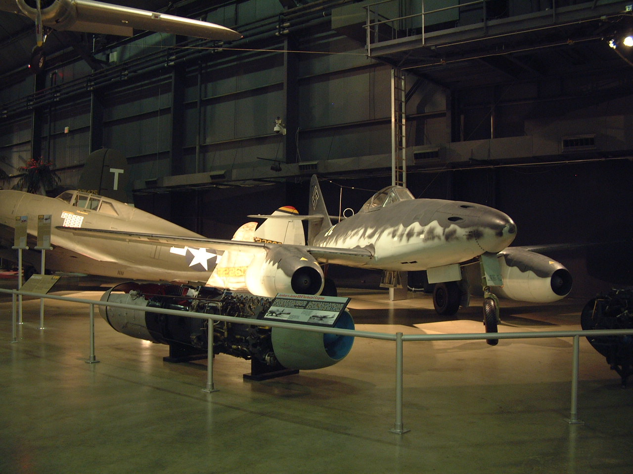 Me 262A picture, taken at USAAF Air Force Museum - Dayton, OH, USA